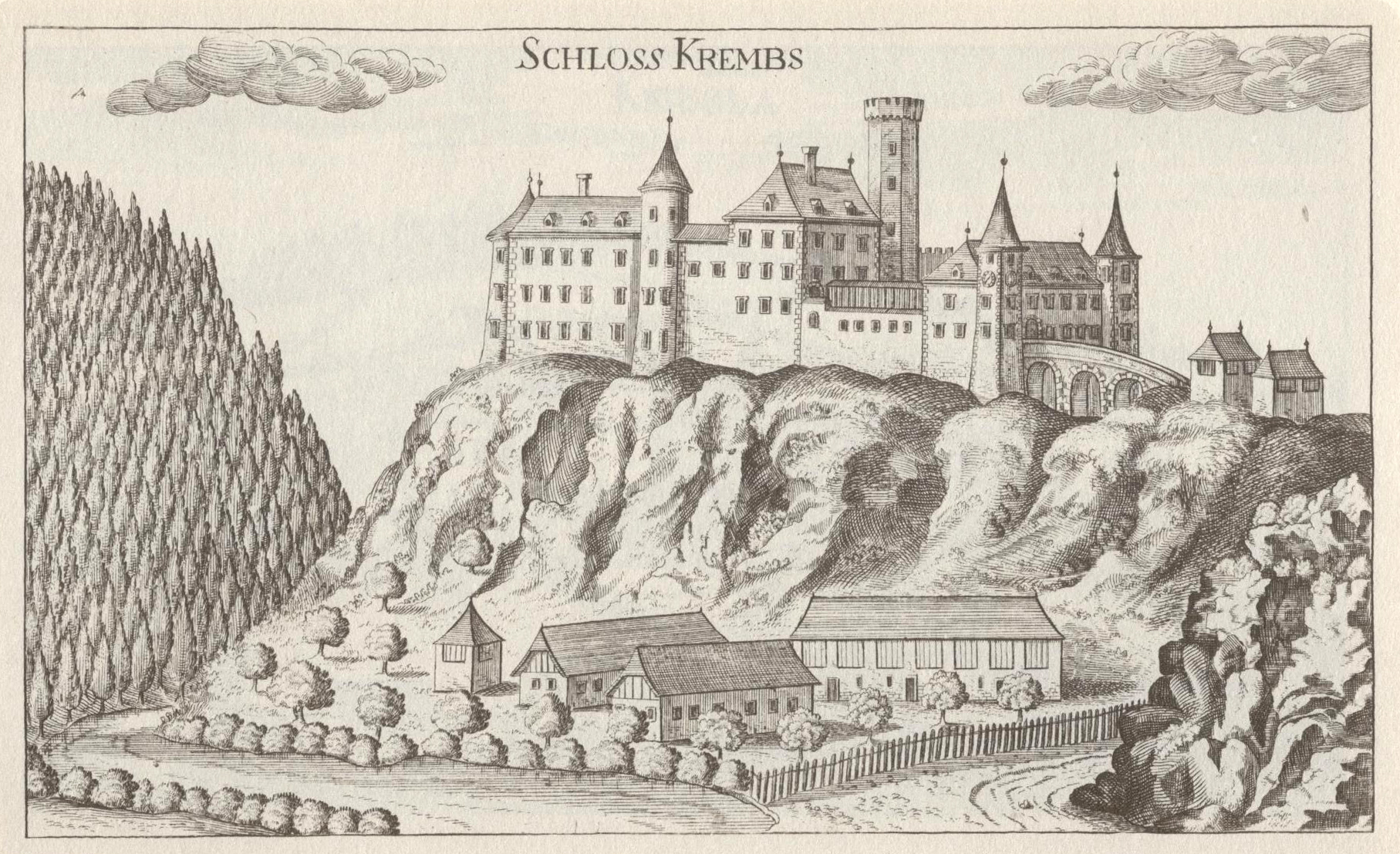 Copper engravig of Krems Cstle near Voitsberg, Styria; from Topographia Ducatus Stiriae